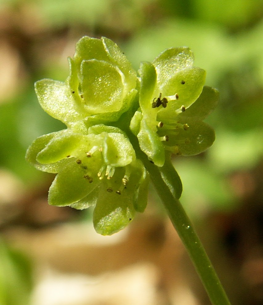 Adoxa moschatellina, flowers. Glowacz reserve, Poland NW.